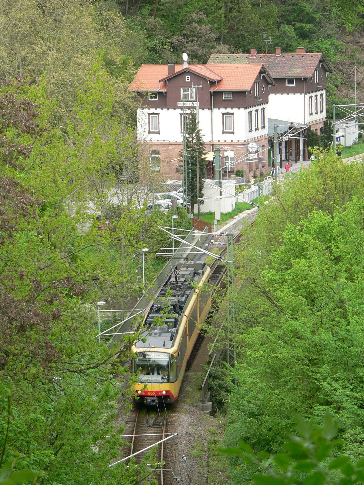 Enztalbahn, a railway line from Pforzheim to Bad Wildbad, Germany. An AVG train and the station of Neuenbuerg